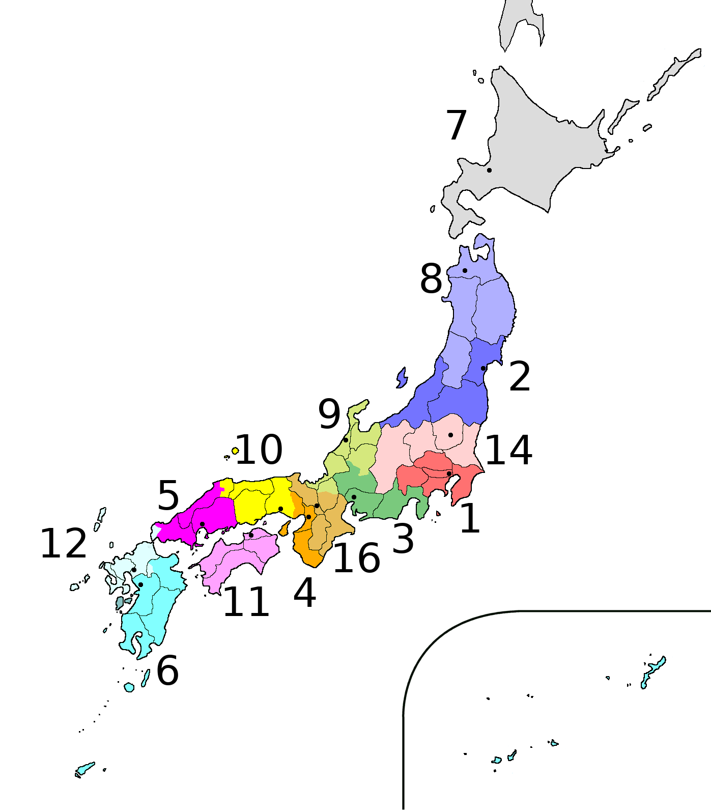 From the Army Regions Table revised on April 6 in 1925.